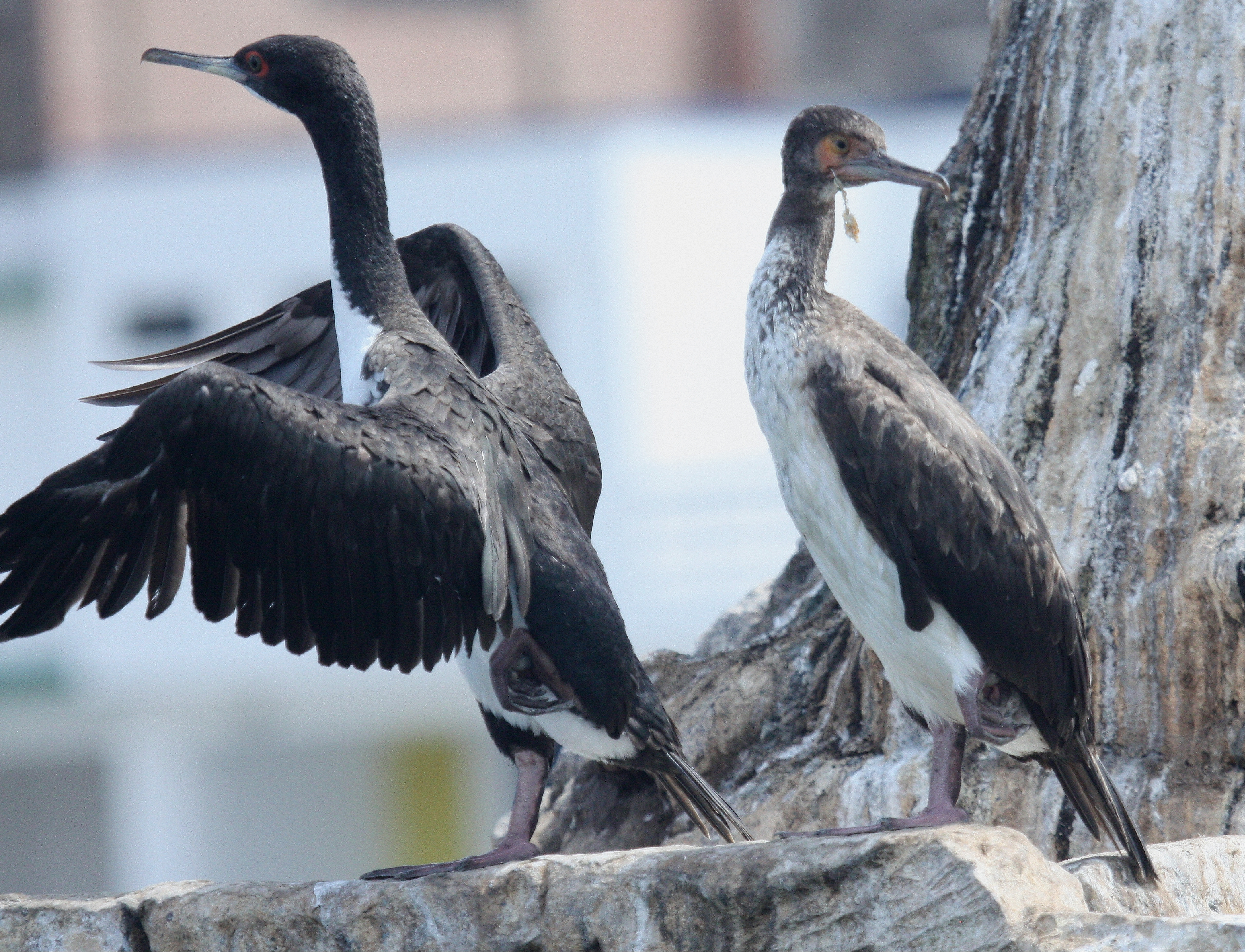 Pucasana coast - Peru